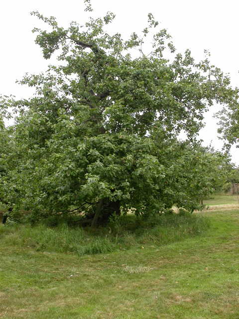 Legendary Apple. This apple tree is in the grounds of Woolsthorpe Manor. It grew up from the fallen tree which is said, possibly erroneously, to have bestowed its fruit on Sir Isaac Newton's head, thereby producing the 'Eureka' moment which led to the formulation of a complete theory of gravitational force. They are cooking apples and said to be 'not very nice' but are good 'keepers' which was useful in the C17th.